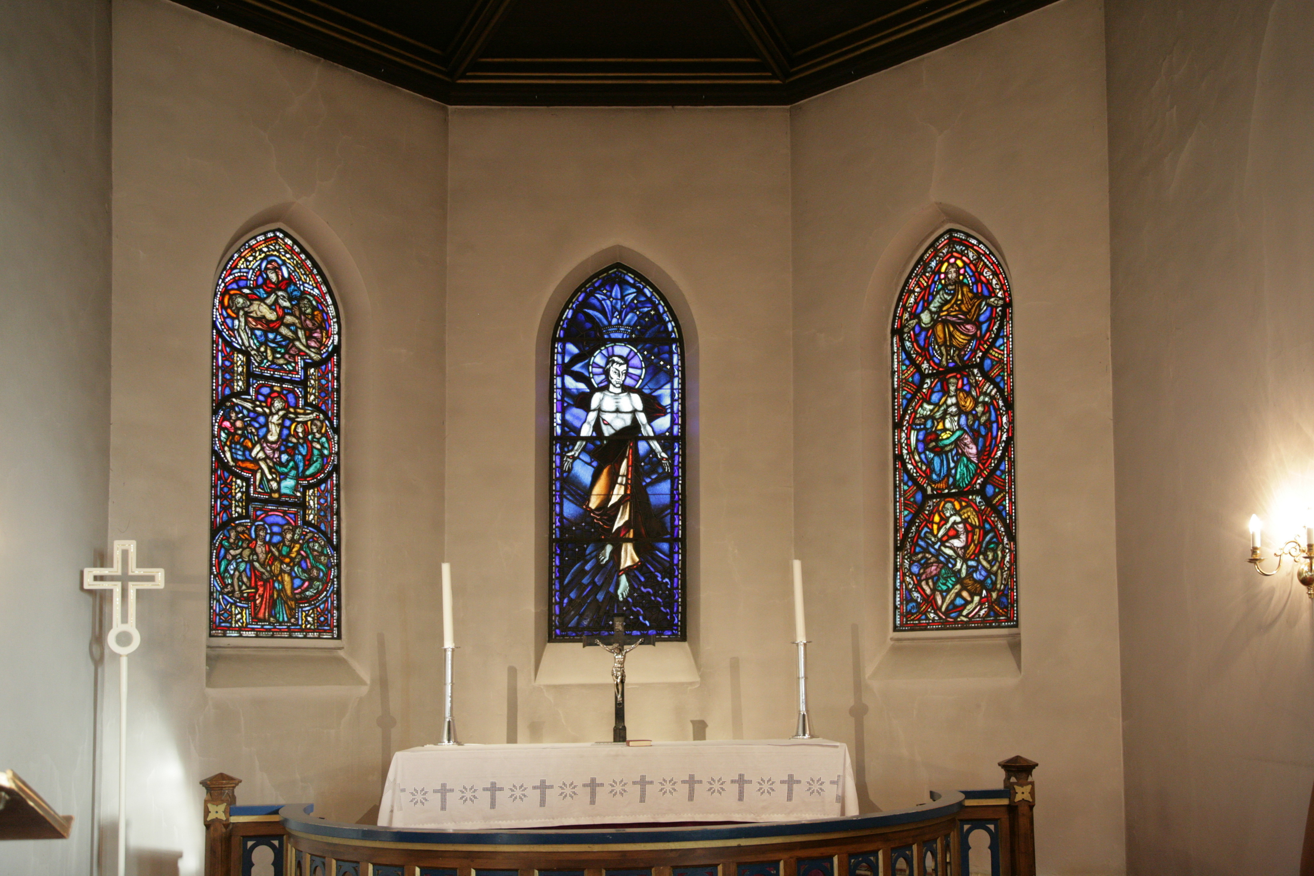 Nordstrand kirke, a church in Oslo